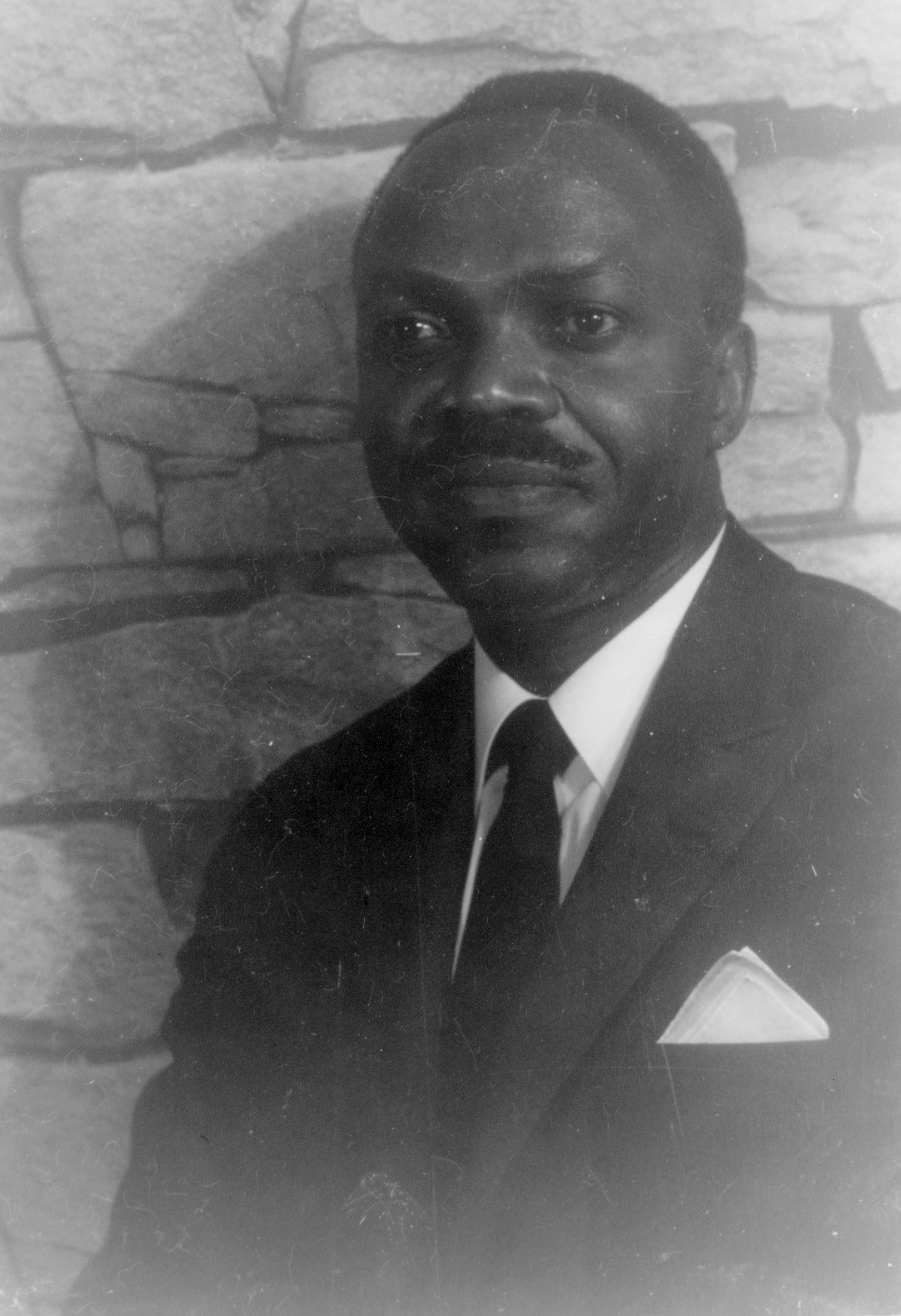 E. R. Braithwaite photo taken by Carl Van Vechten, photographer. CREATED/PUBLISHED 1962 Apr. 24.